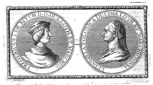 Frederick I, Duke of Lorraine and his wife